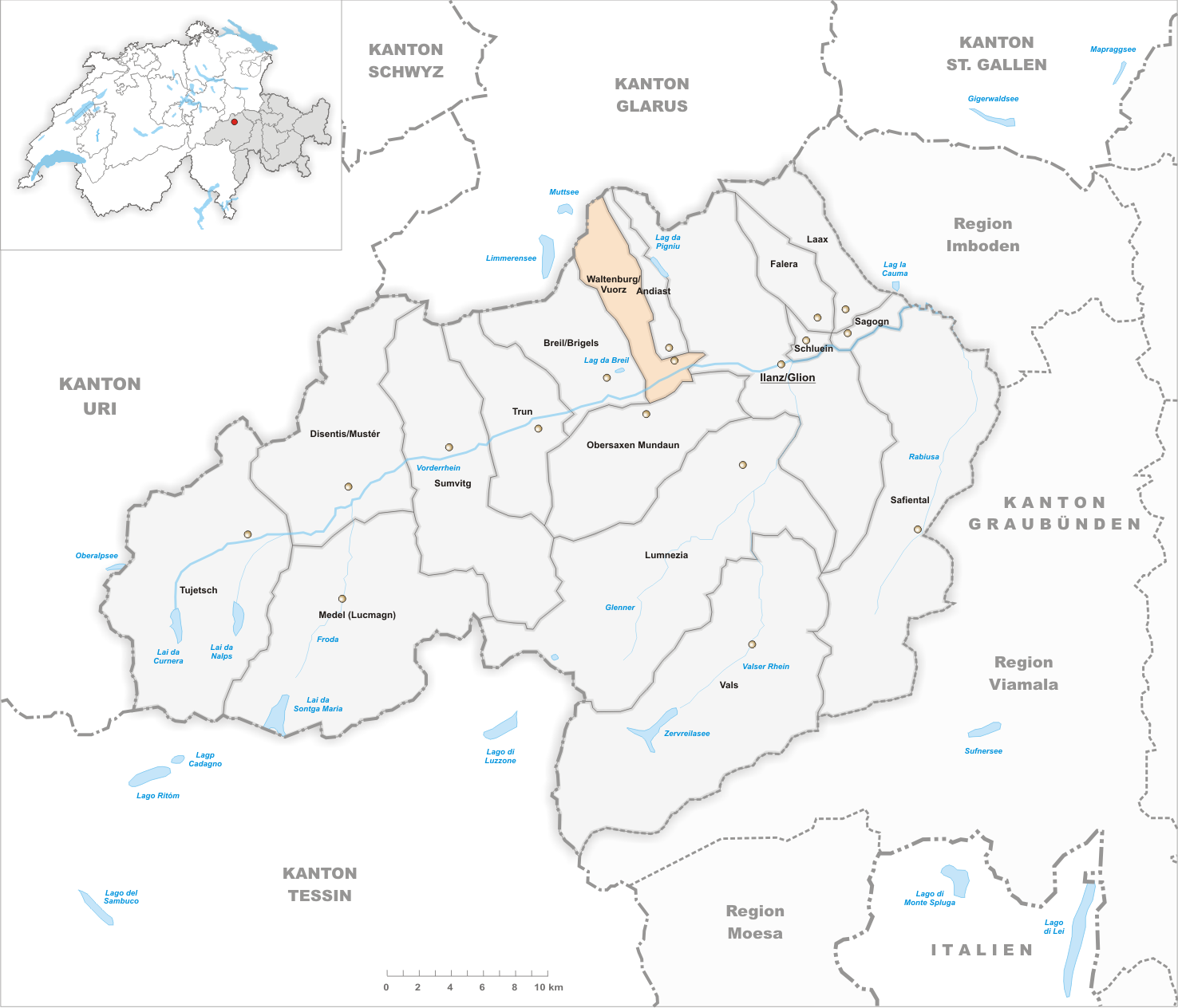 Municipality Waltensburg/Vuorz